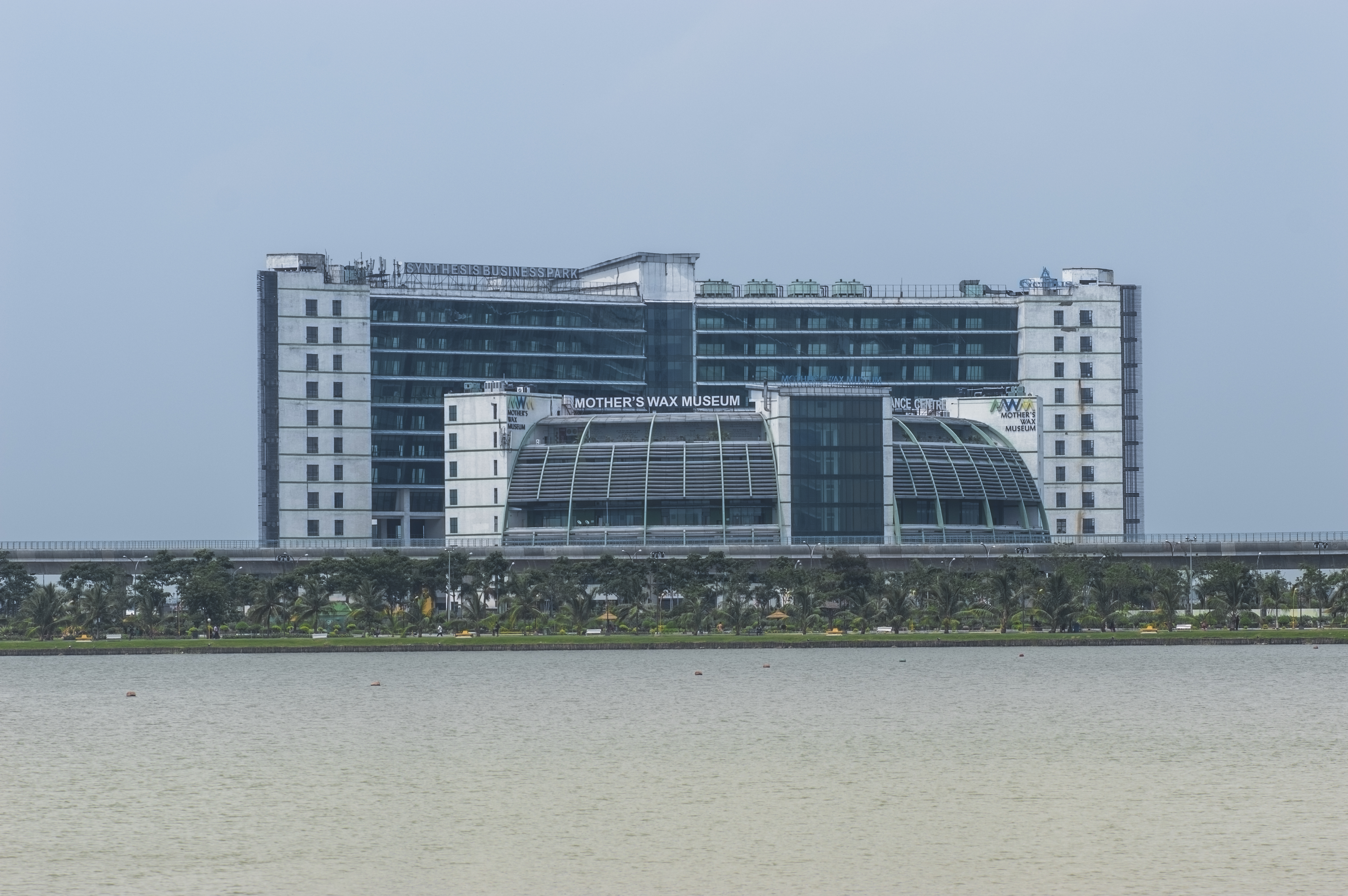 The picture was taken from Ecopark across the lake